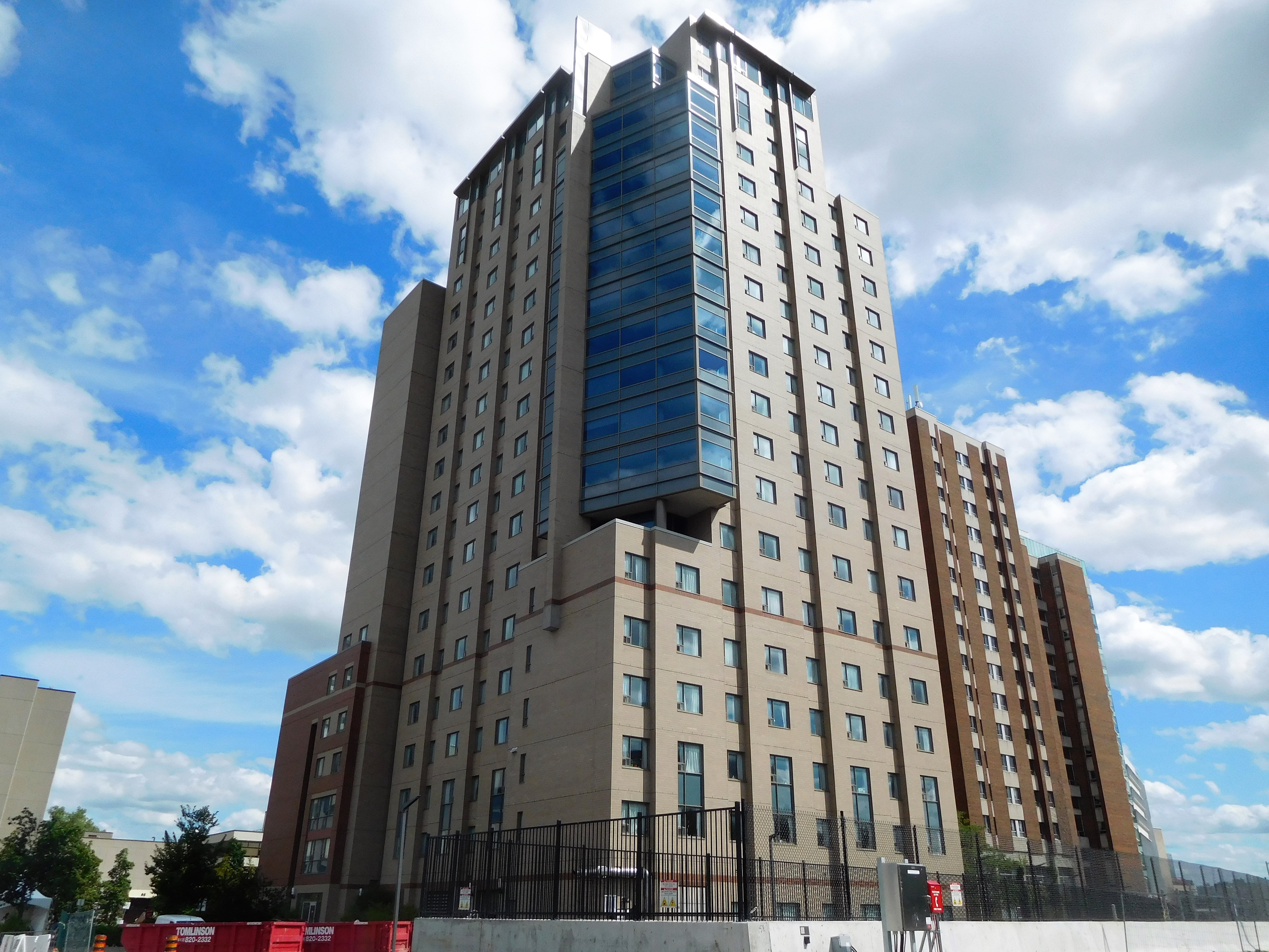 90 University (90U), University of Ottawa Residences, 90 University Private, Ottawa « This 20-storey building is home to 652 students living in single-gendered, 2-bedroom suites. Each suite has a kitchenette and a private bathroom, and common rooms and lounges for residents to study or relax are found on every floor. » – uottawa.ca